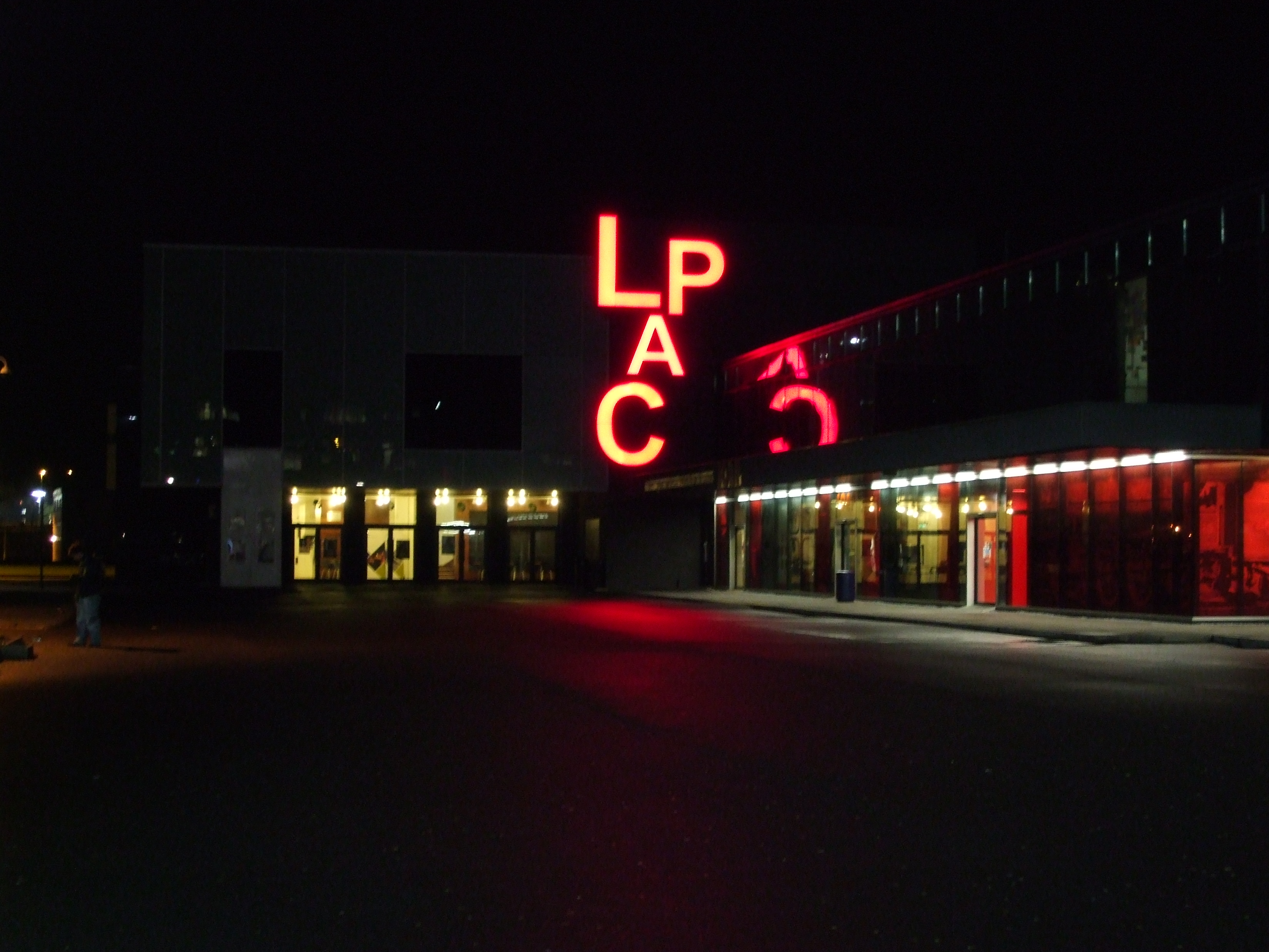 University of Lincoln - LPac Theatre